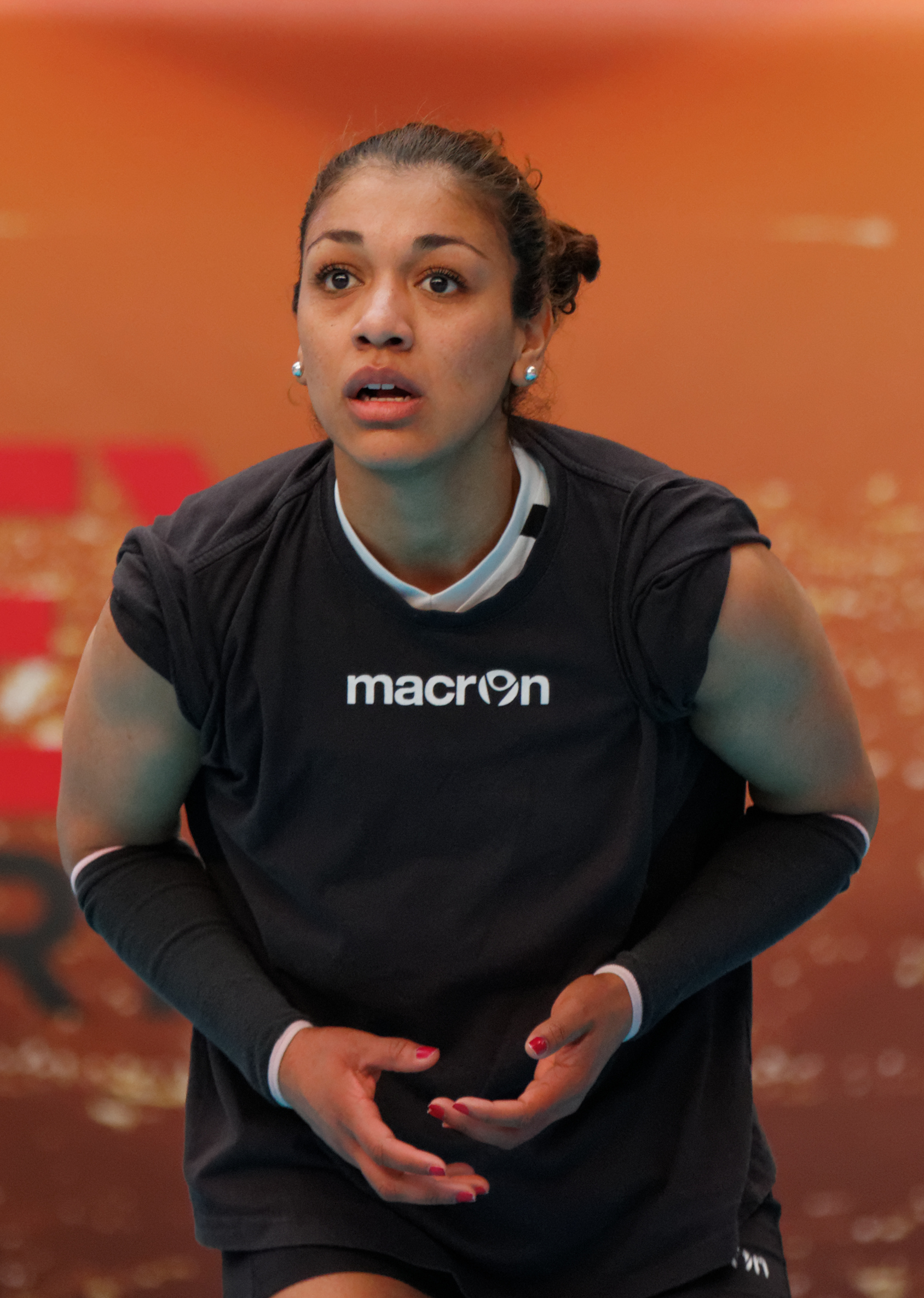 Final of the Volleyball French Cup, Vannes Volley-Ball - Terville Florange Olympique Club, March 30, 2013. Vanessa Palacios (Vannes VB).